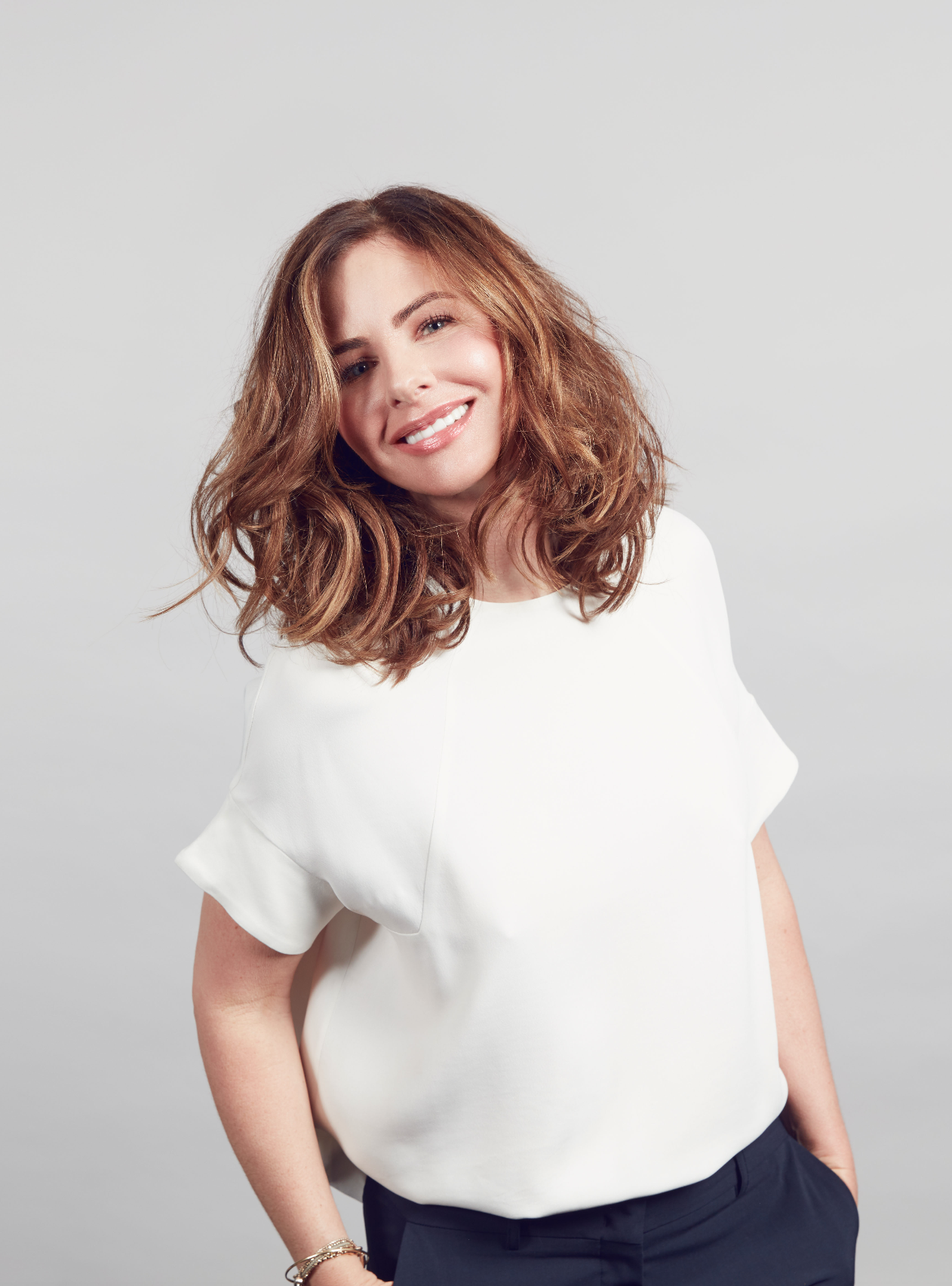 Trinny Woodall